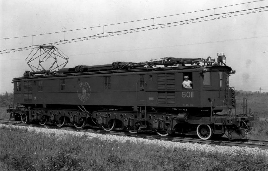 Photo of a Great Northern electric locomotive class Y-1, built by General Electric. Later on, these locomotives were sold to the Pennsylvania Railroad, who labeled them FF2s.